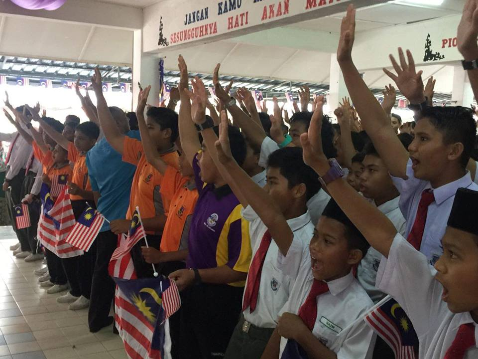 laungan merdeka dari pelajar